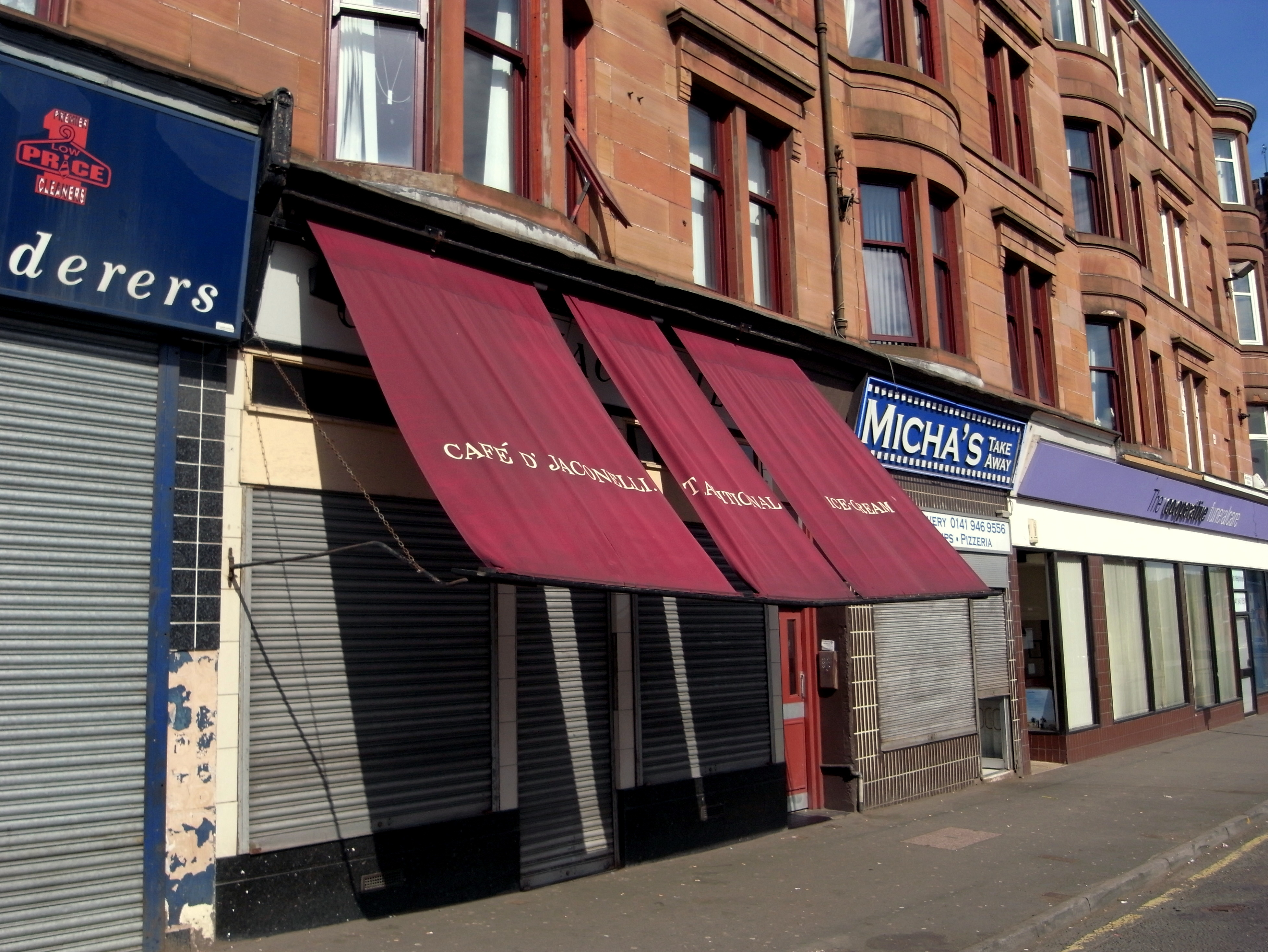 Glasgow. Café D'Jaconelli. 570 Maryhill Road. Café was featured in Trainspotting, Danny Boyle's film from 1996.